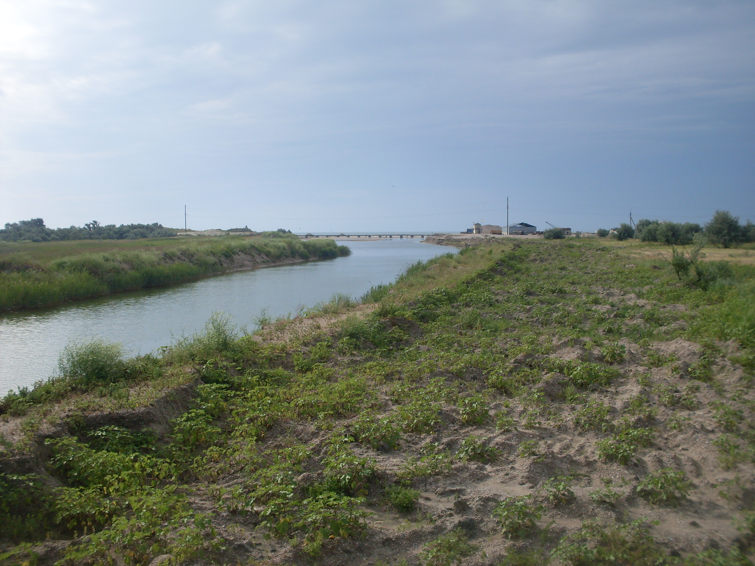 Molochny Lyman near vil. Kyrylivka, Zaporizhia Oblast